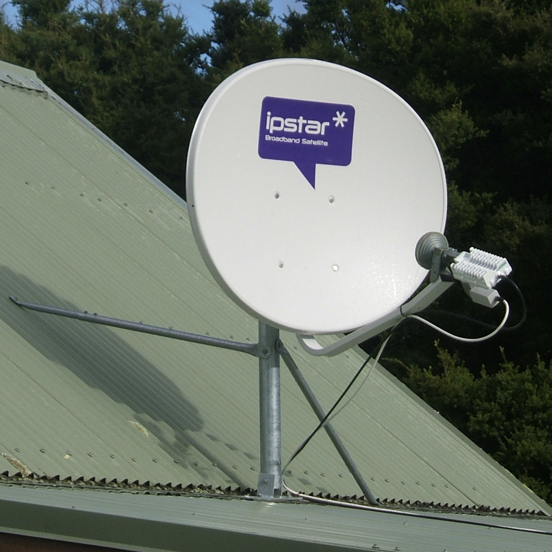 ipstar Satellite Dish